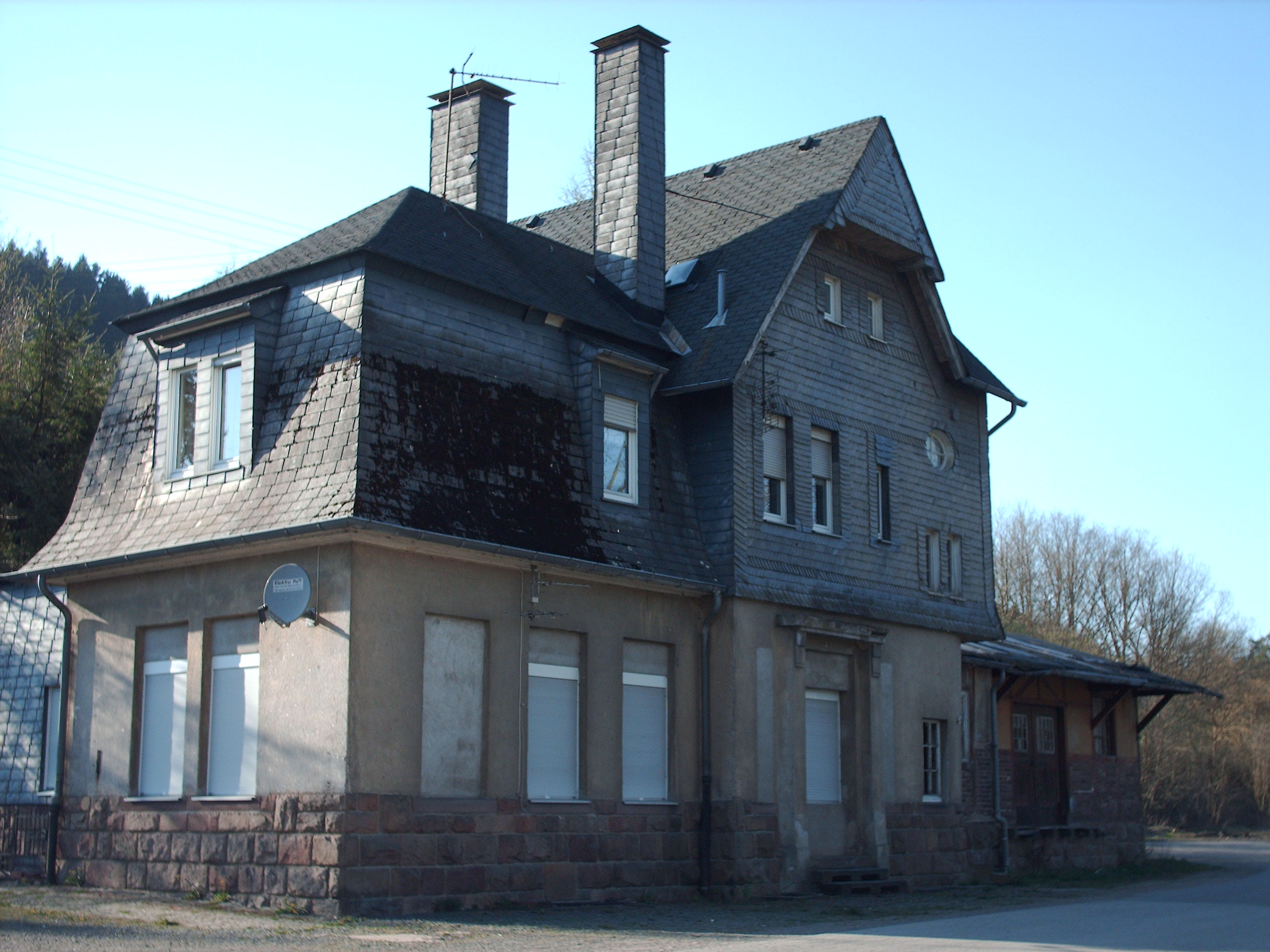 Former train station Heinsberg, Kirchhundem, Germany check usage